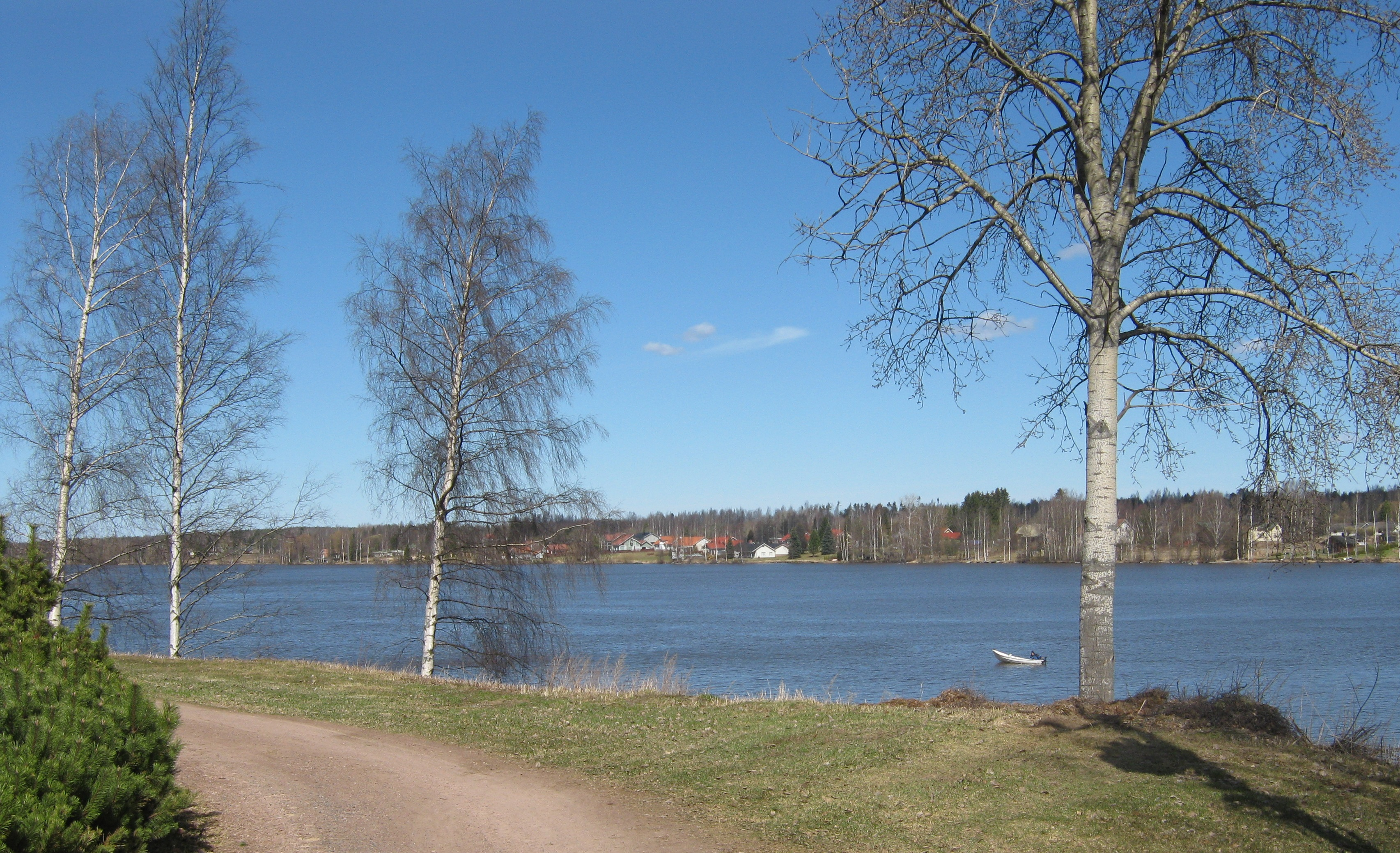 Kokemäenjoki river, Harjavalta, Finland.